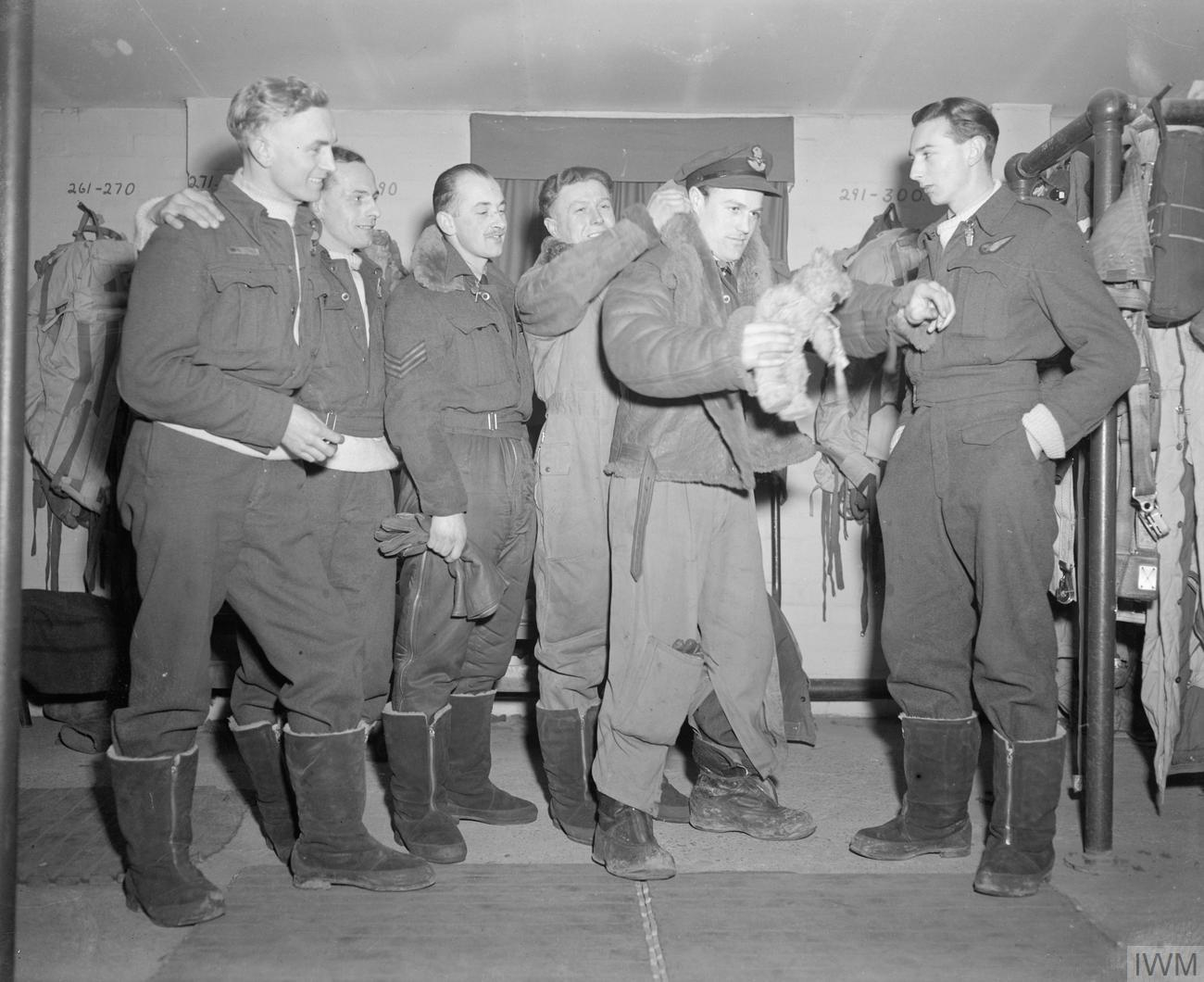 Royal Air Force 1939-1945- Bomber Command Lancaster skipper, Flying Officer T Blackham of No. 50 Squadron, keeps a firm hold on the crew's lucky mascot, as he is helped into his flying jacket by his flight engineer, Sergeant C Walton, at Skellingthorpe, 19 February 1944. Other members of the crew are, from left to right: Pilot Officer D Jones (navigator), Sergeant H Ridd (mid-upper gunner), Sergeant S Smith (bomb aimer) and Sergeant S Wilkins (wireless operator).